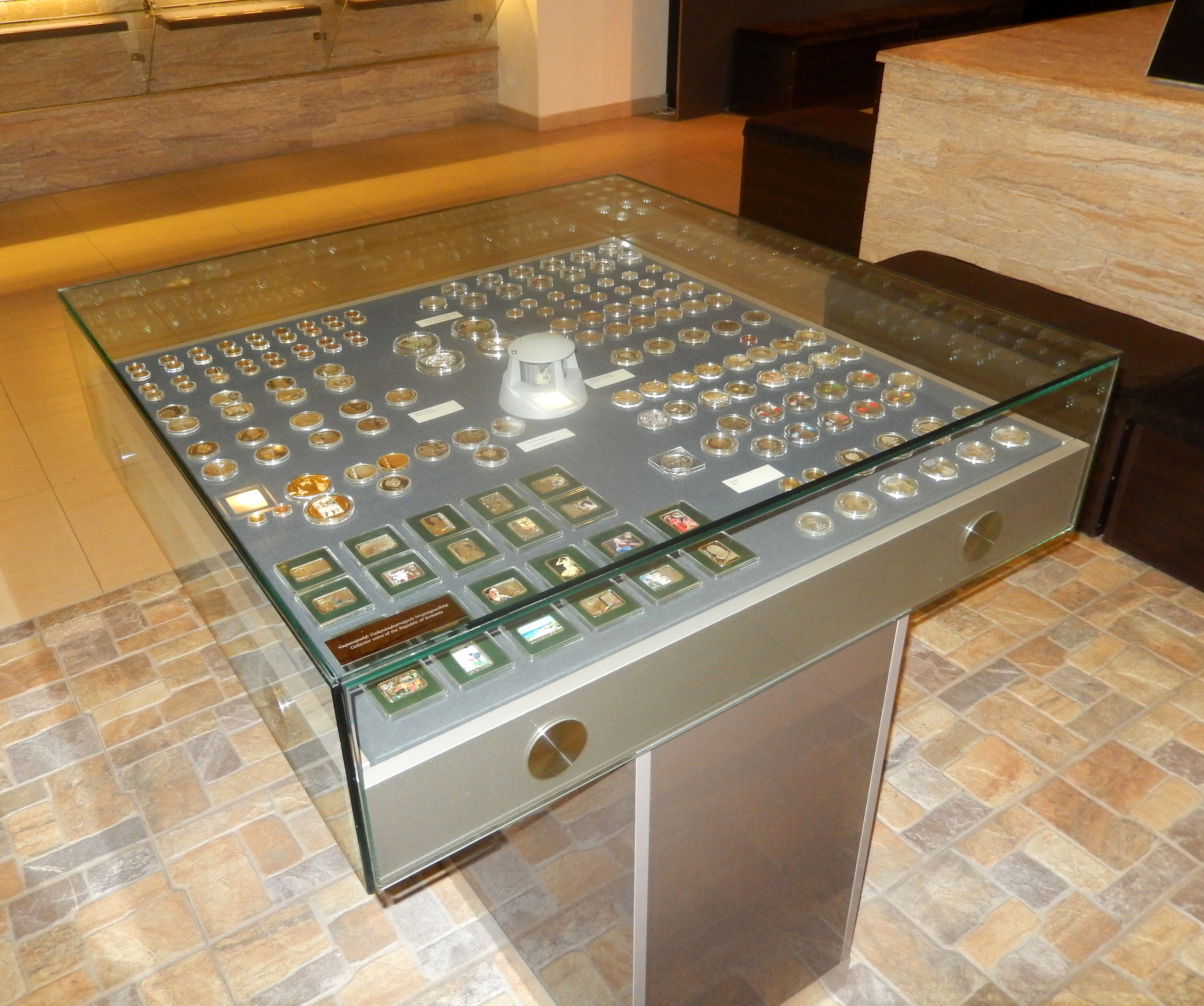 Visitors Center, CB, Yerevan